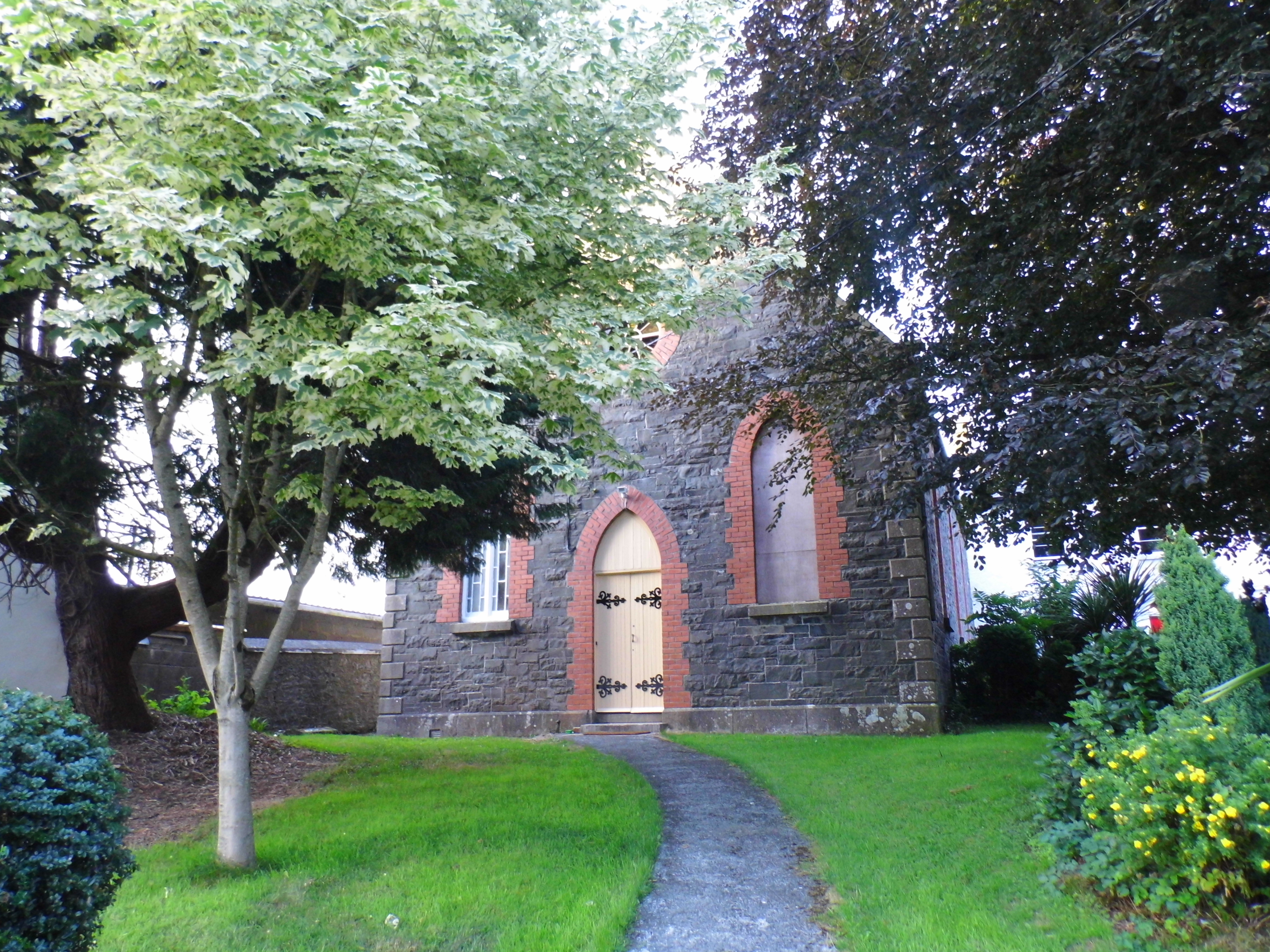 County Cavan, Cootehill Masonic Hall. Wikidata has entry Q55049031 with data related to this item.